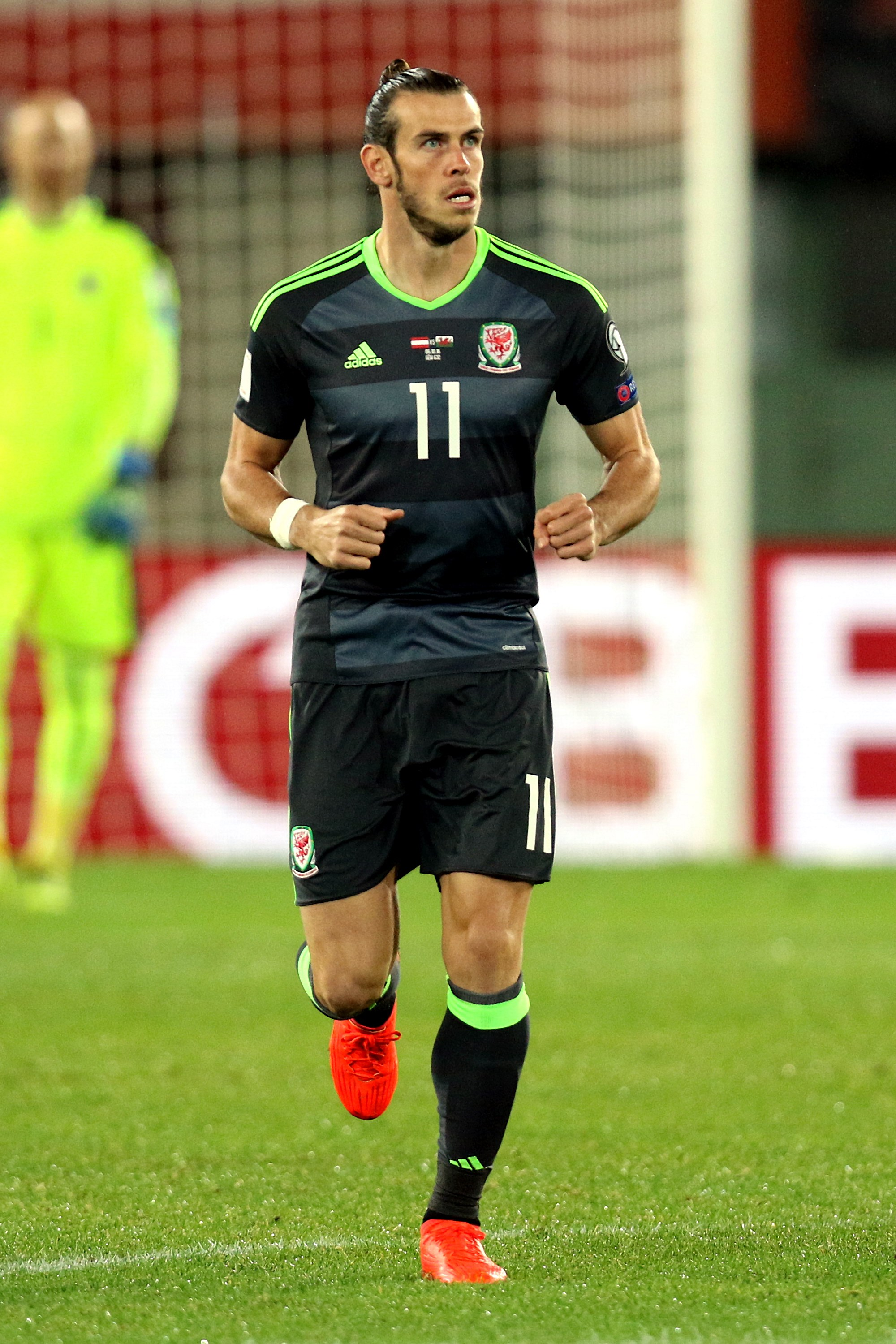 2018 FIFA World Cup qualification – UEFA Group D) – Austria (red shirts) vs. Wales (white shirts) 2-2 (1-2) – 2016-10-06 in Vienna, Ernst-Happel-Stadion – The photo shows Gareth Bale.